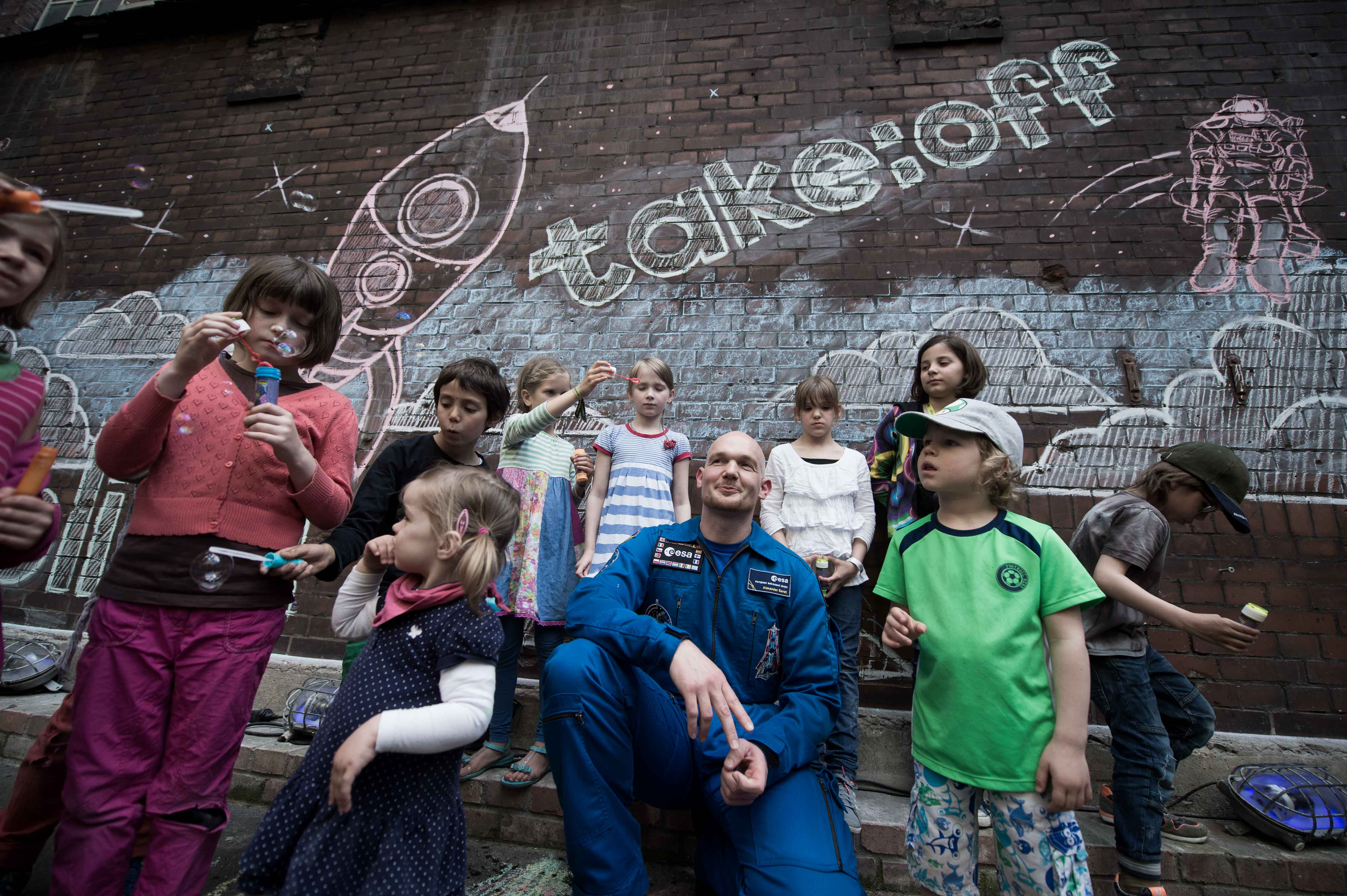 Alexander Gerst mit Kindern im backstage auf der re:publica 2015 am 06.05.2015 in Berlin. Copyright: re:publica/Gregor Fischer